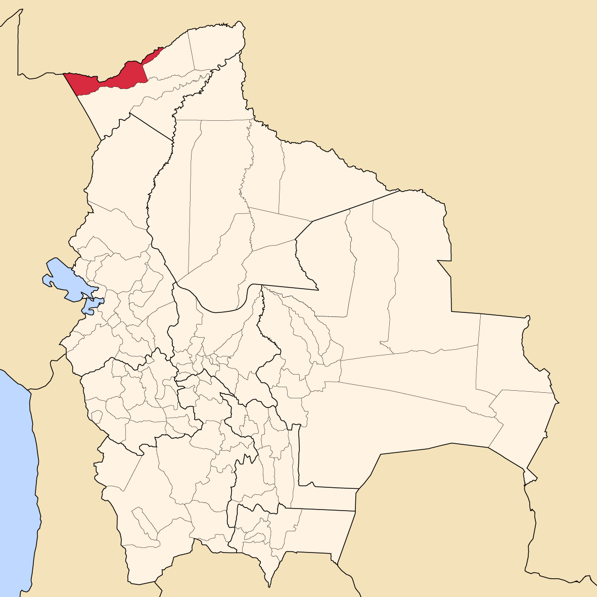 Map of Bolivia showing Nicolás Suárez province, Pando